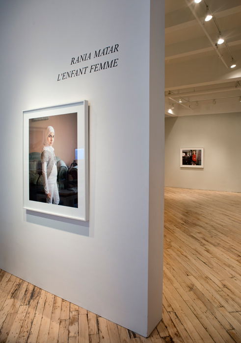 L'Enfant-Femme at Carroll and Sons, Rania Matar